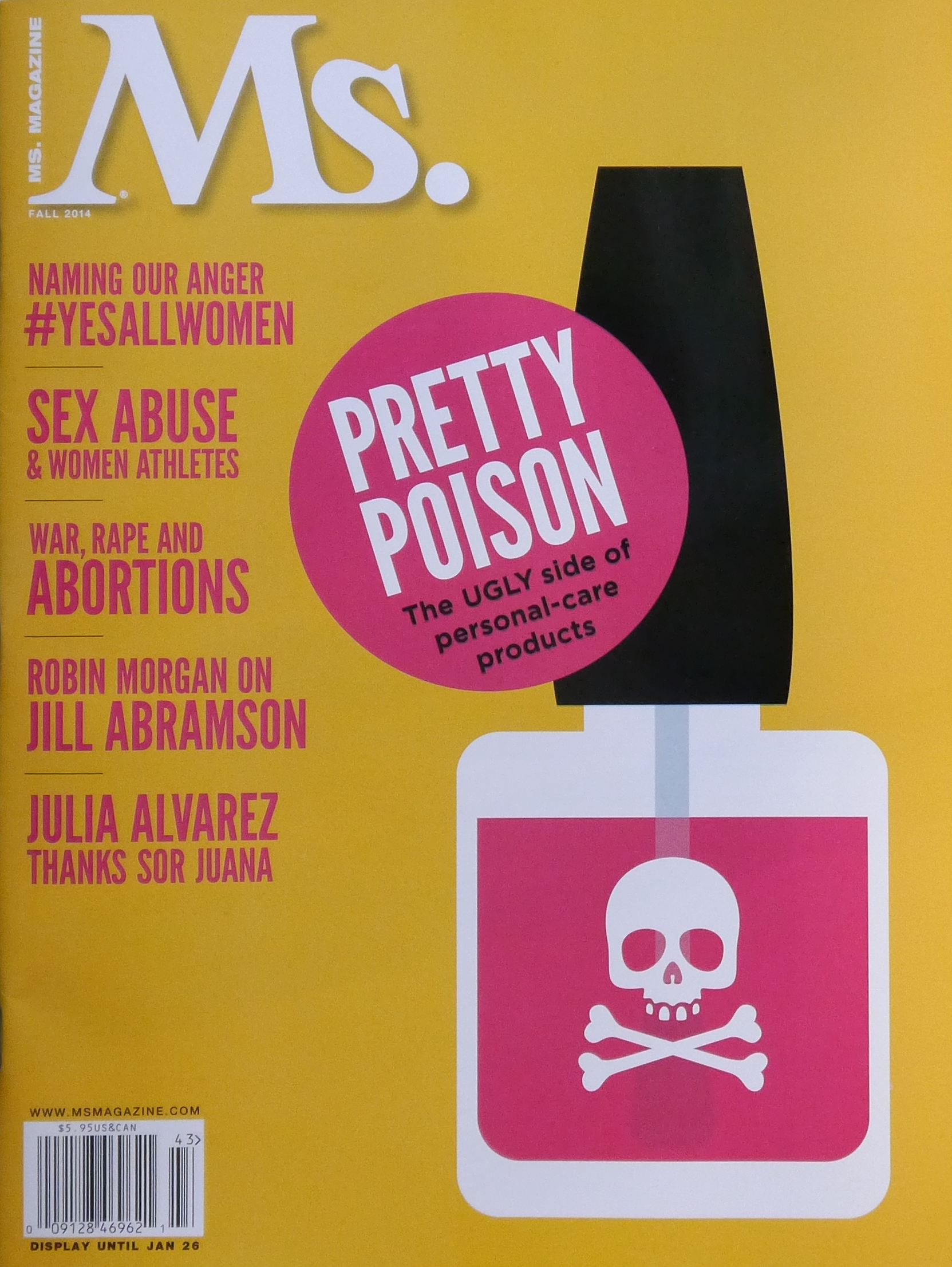 Ms. magazine, fall 2014 issue about beauty products